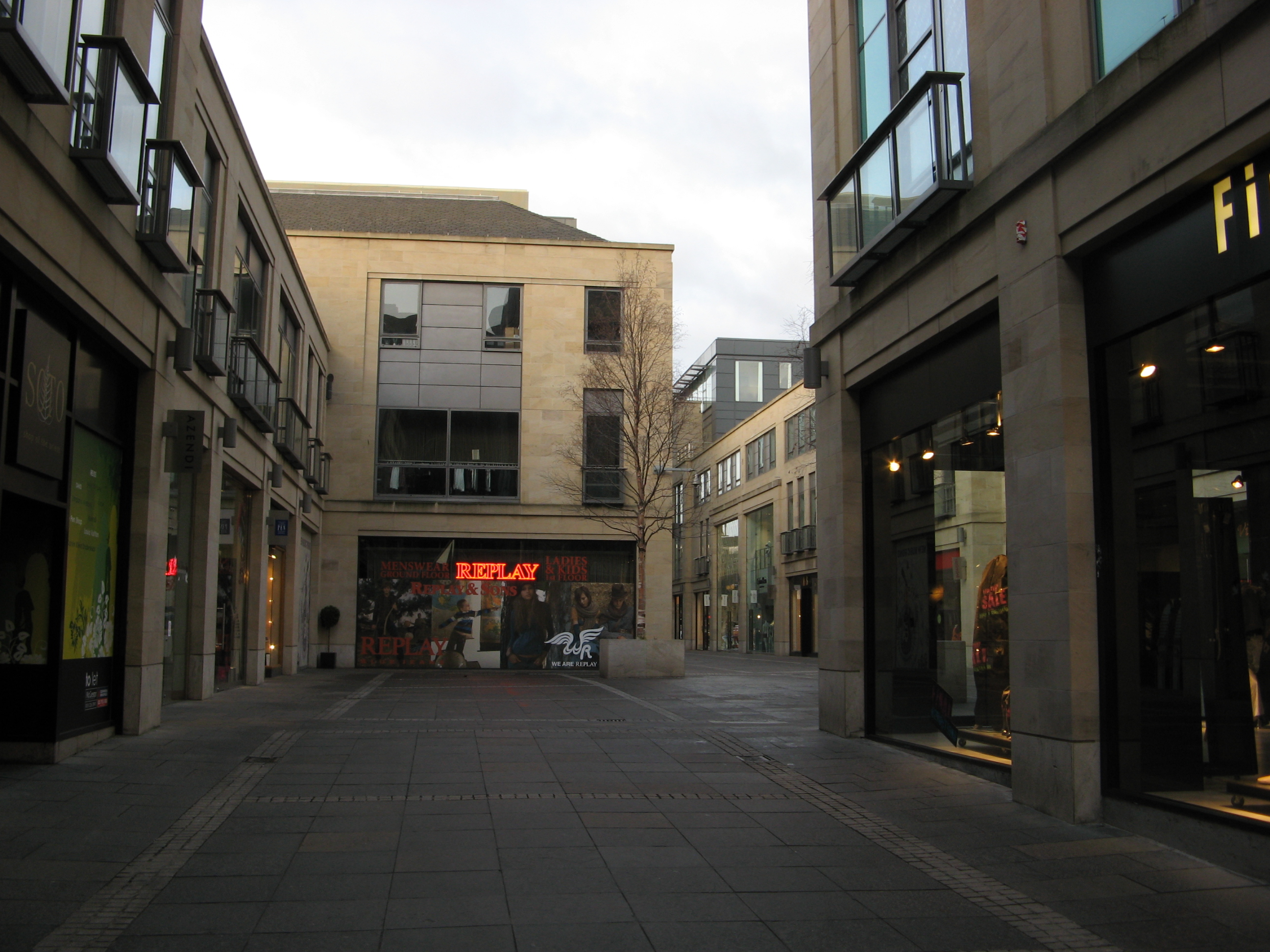 Multrees Walk, a shopping street in Edinburgh, Scotland